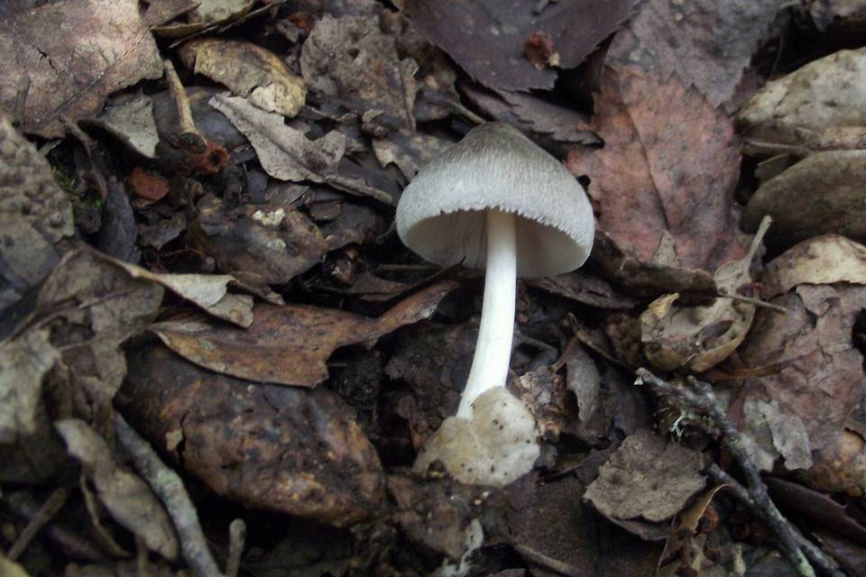 Volvariella caesiotincta, Sardinia, Italy